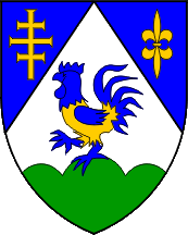 Official coat of arms of the Karlovac county in Croatia, made from gif version at by Željko Heimer